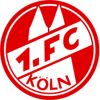 Logo Koln